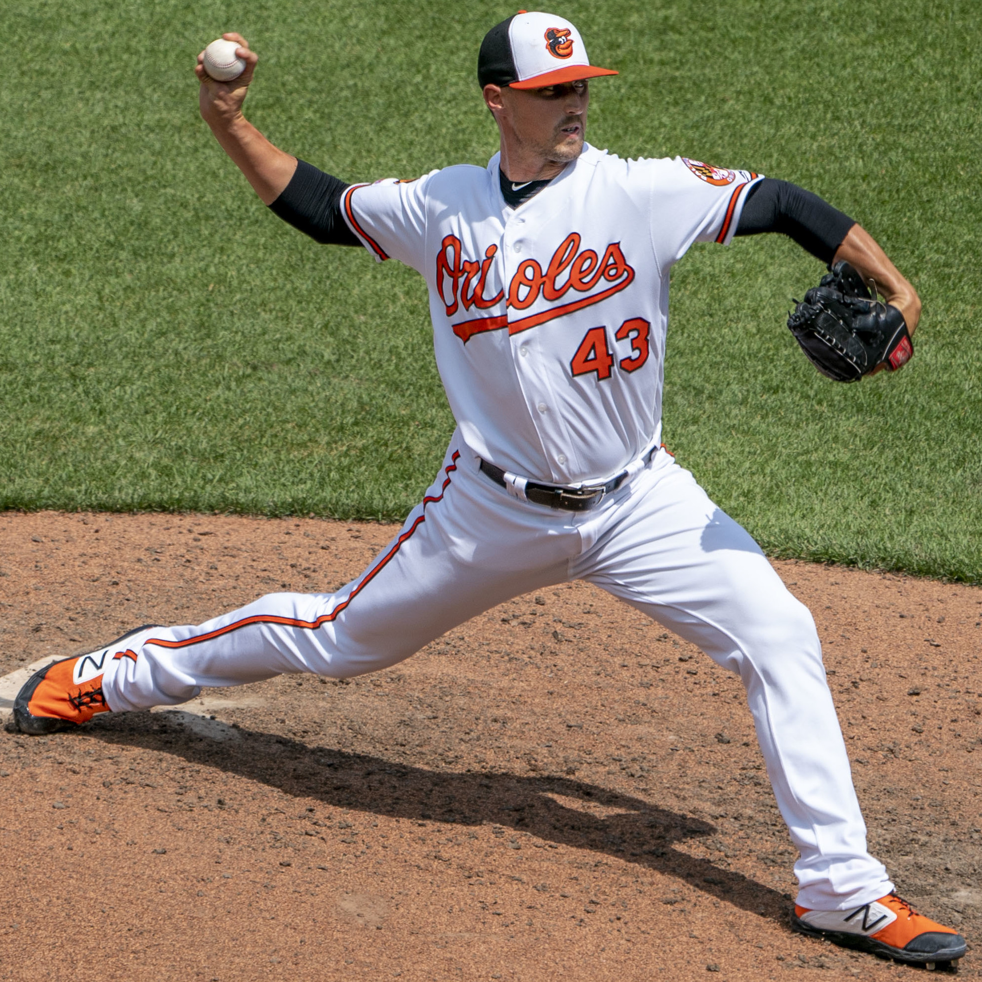 Indians at Orioles 6/30/19